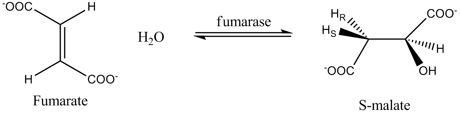 An example of a chemical reaction.